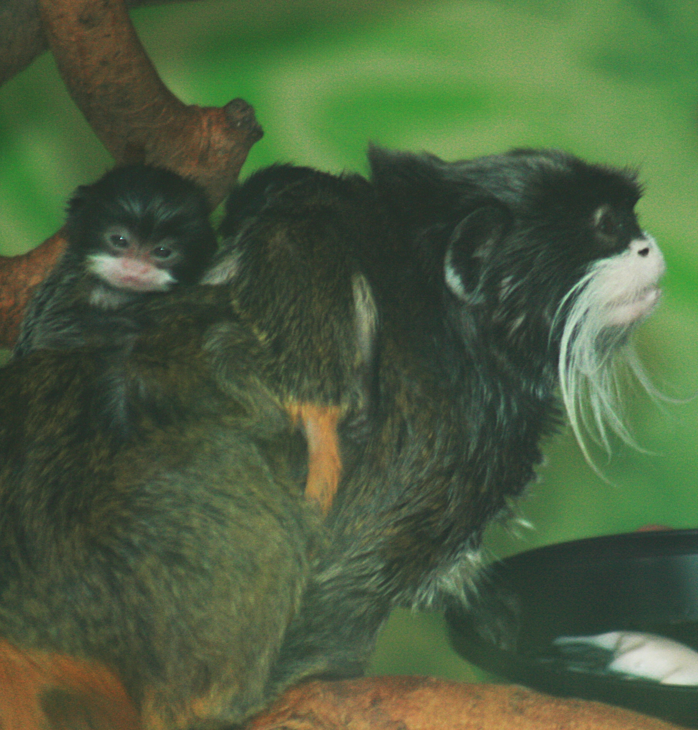 Brockway Monkey with a babies